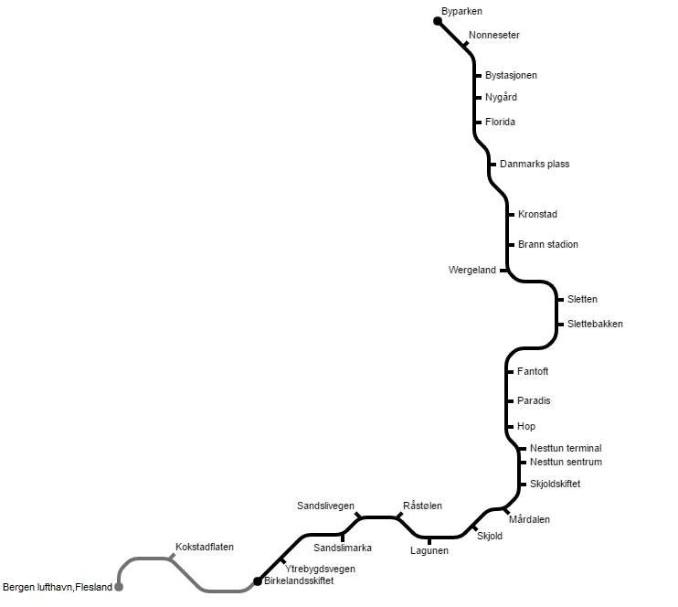 Map of Bergen's speed tram.